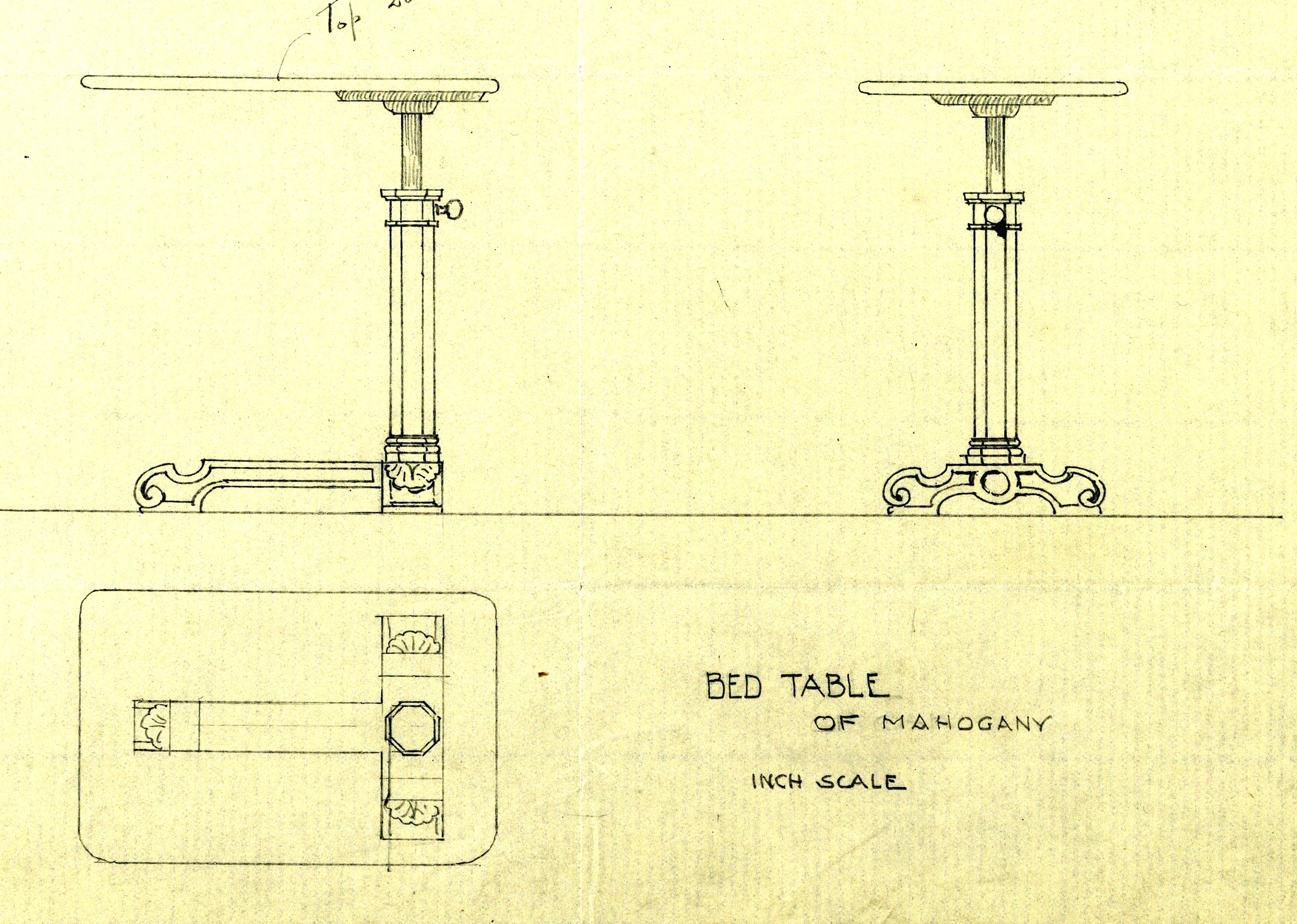 Drawing, Design for Small Bed Table "B" of Mahogany, in Three Views, 1900–05